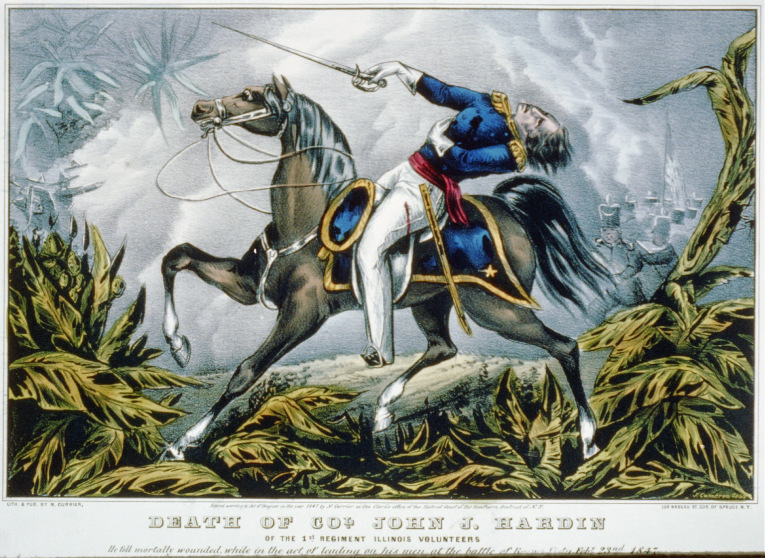 The death of Col. John J. Hardin (1810-1847) at the Battle of Buena Vista.